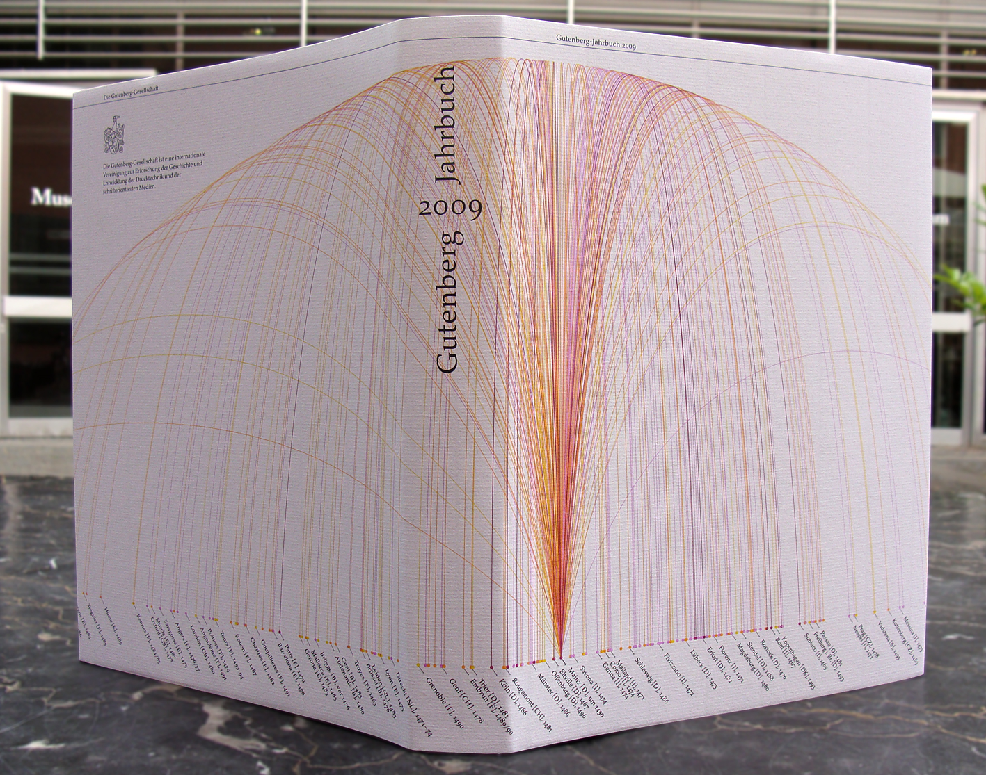 Gutenberg Yearbook 2009